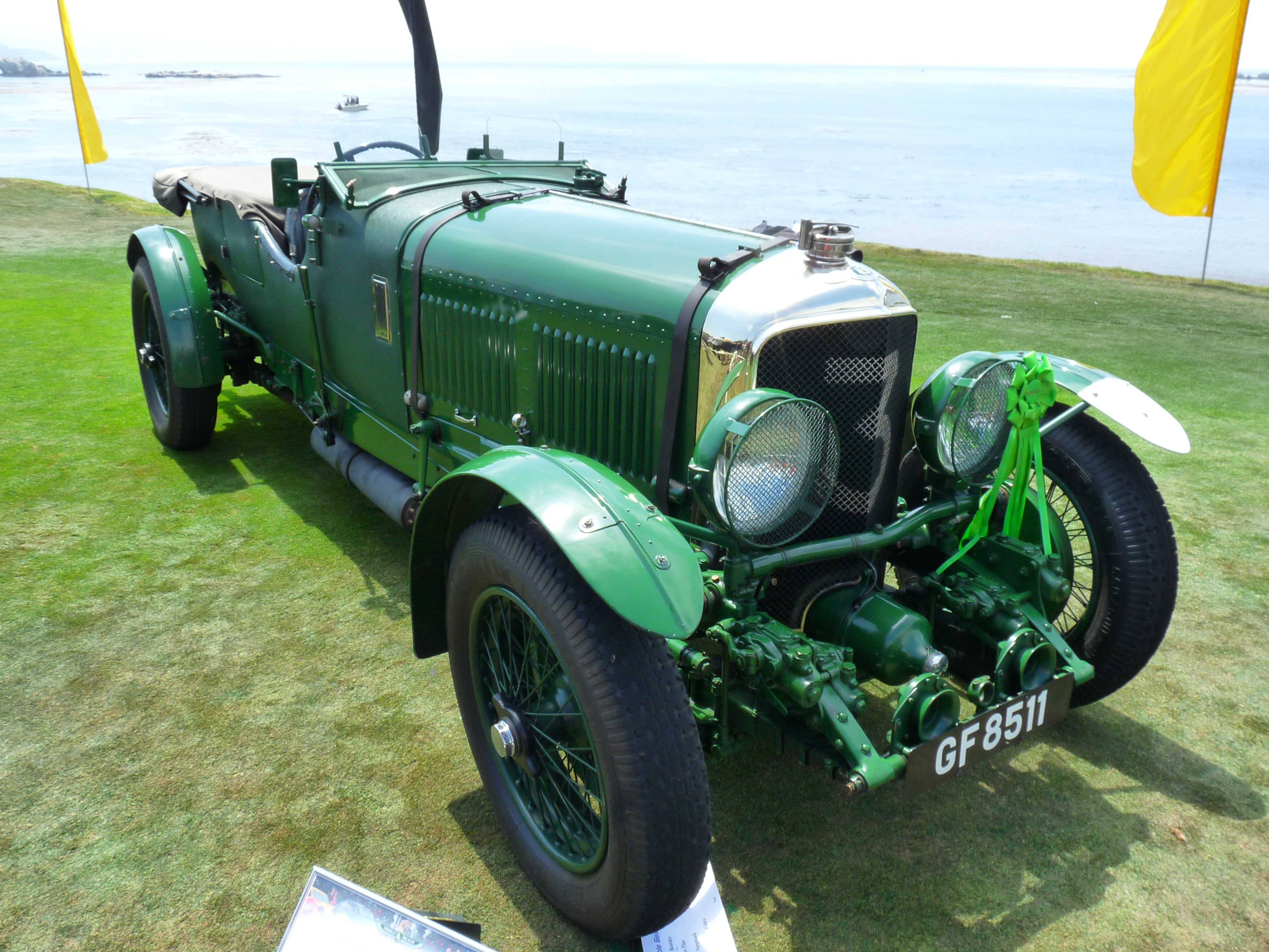 1930 Bentley Speed Six Vanden Plas tourer "Old Number 3" The following information is from Vintage Bentleys One of only two cars created by Bentley specifically for competition purposes Driven by Sammy Davis and Clive Dunfee in the 1930 Le Mans race (21 laps, did not finish) Chassis No. HM2869 Engine No. HM2873 Registration No. GF8511 Date of delivery: May 1930 Type of body: 4-seater Coachbuilder: Vanden Plas Type of car: Speed, 11 ft wheelbase First owner: Bentley Motors, sold to Cook